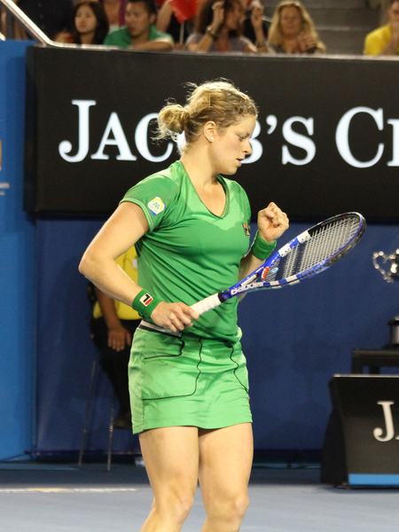 Kim Clijsters at the 2011 Australian Open